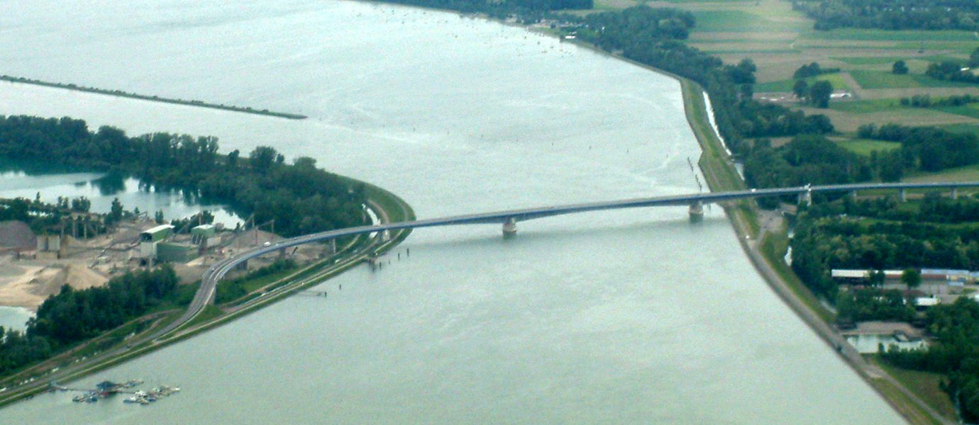 ThePierre Pflimlin bridge over the river Rhine between Germany (left) and France (right). Seen from an airplane flying to the north of the bridge. Visible on the eastern (left) side of the bridge is the approach viaduct and a cement works near Altenheim.